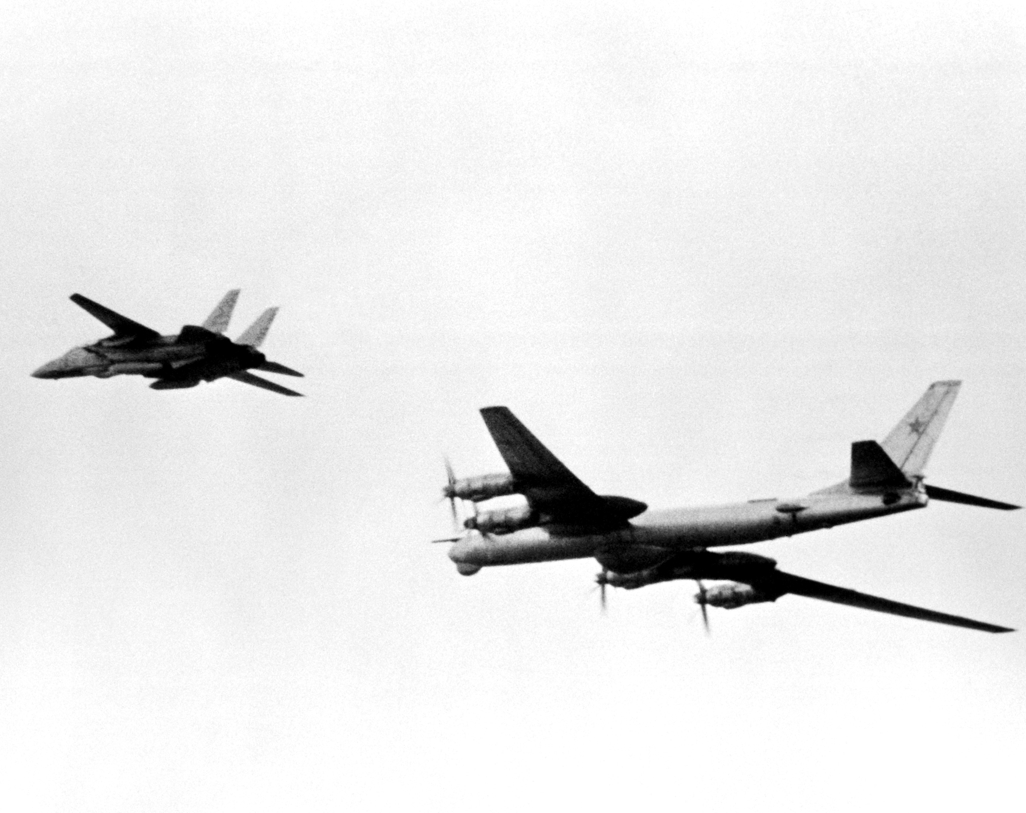 A U.S. Navy F-14A Tomcat from fighter squadron VF-33 Starfighters, Carrier Air Wing 1 (CVW-1), from USS America (CV-66) escorting a Soviet Tu-95 Bear D reconnaissance aircraft away from the exercise Northern Wedding '82 task force, over the Atlantic Ocean, 12 September 1982.